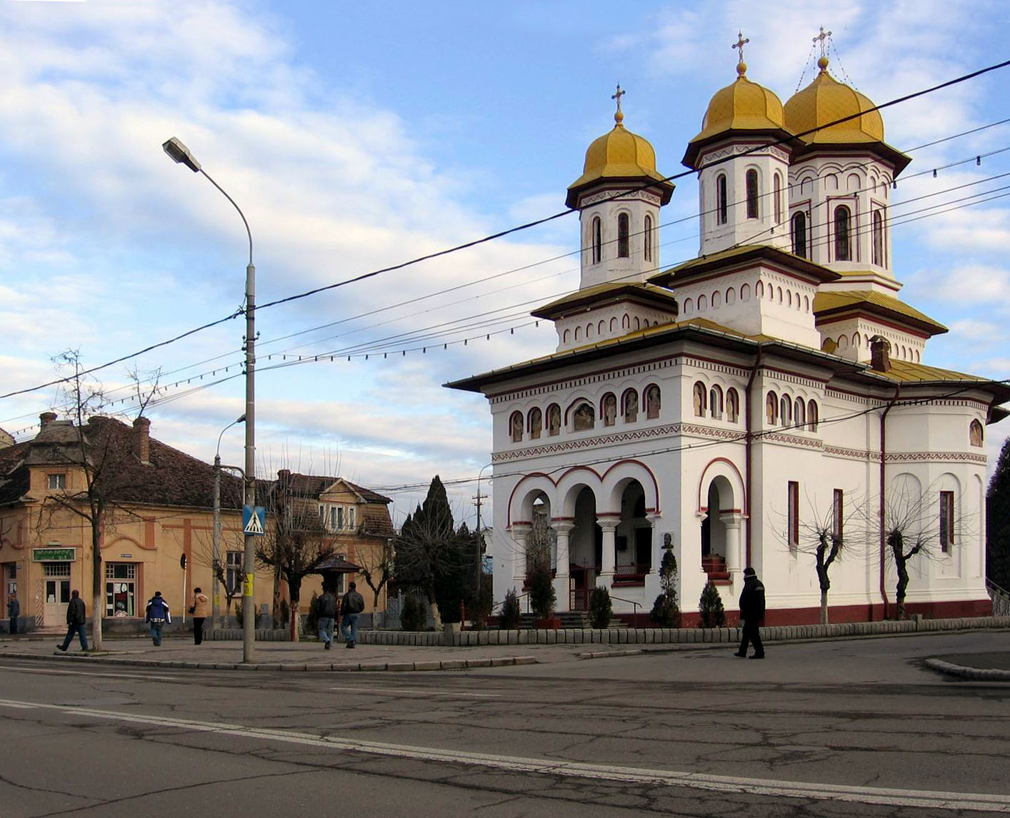 Saint George Church, Târnăveni in Romania